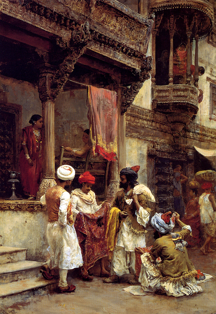 He was born at Boston, Massachusetts, in 1849. He was a pupil of Léon Bonnat and of Jean-Léon Gérôme, at Paris. He made many voyages to the East, and was distinguished as a painter of oriental scenes. [1] Weeks' parents were affluent spice and tea merchants from Newton, a suburb of Boston and as such they were able to accept, probably encourage, and certainly finance their son's youthful interest in painting and travelling. As a young man Edwin Lord Weeks visited the Florida Keys to draw and also travelled to Surinam in South America. His earliest known paintings date from 1867 when Edwin Lord Weeks was eighteen years old, although it is not until his Landscape with Blue Heron, dated 1871 and painted in the Everglades, that Weeks started to exhibit a dexterity of technique and eye for composition—presumably having taken professional tuition. In 1895, he wrote and illustrated a book of travels, From the Black Sea through Persia and India, and two years later he published Episodes of Mountaineering. He died in November 1903. He was a member of the Légion d'honneur, France, an officer of the Order of St. Michael, Germany, and a member of the Secession, Munich.